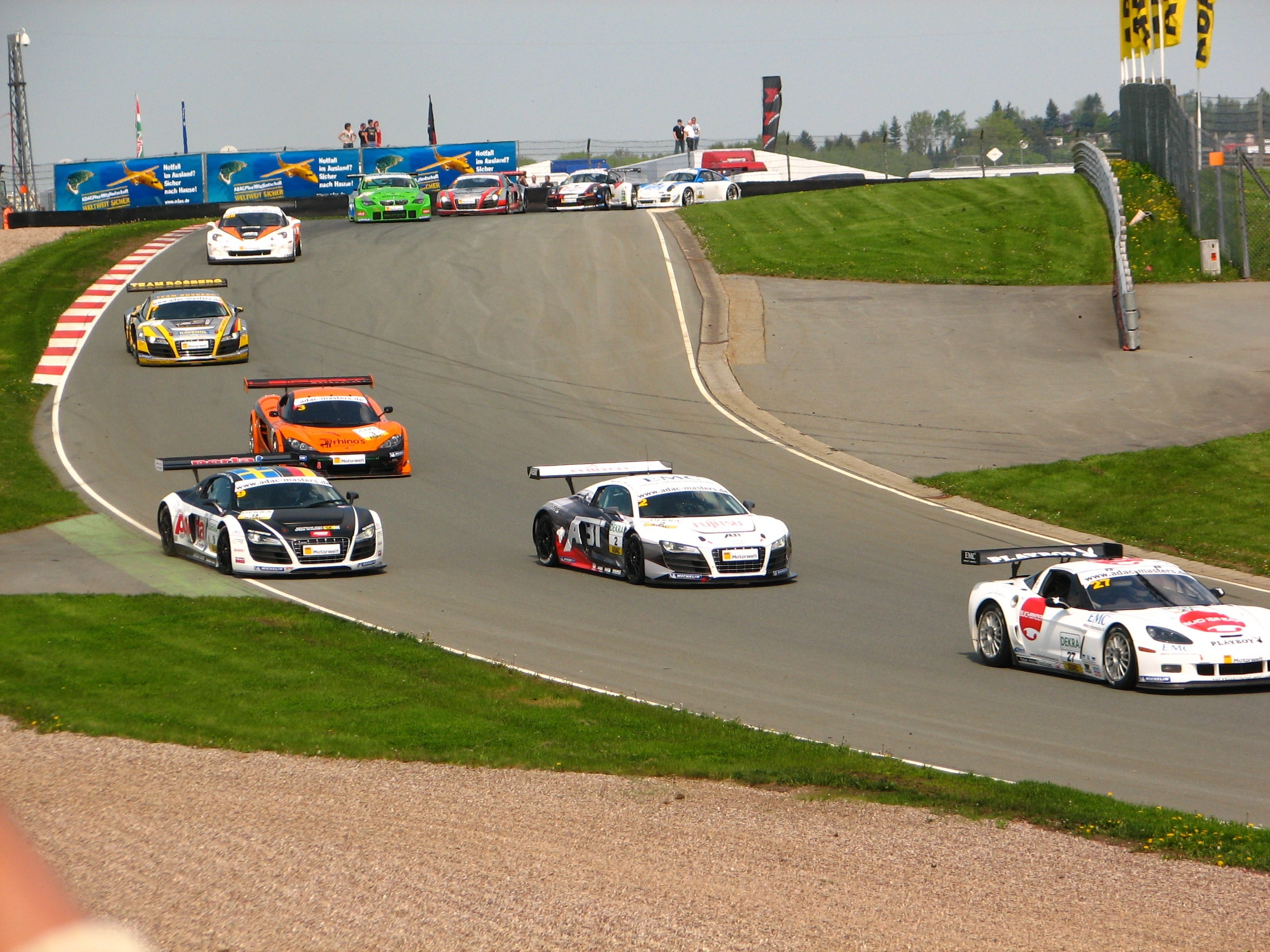 The ADAC GT Masters series at Sachsenring